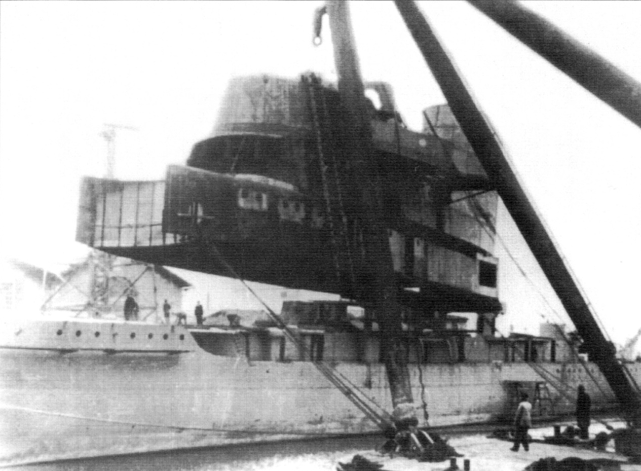 The forward superstructure of Tashkent being swayed aboard the hull